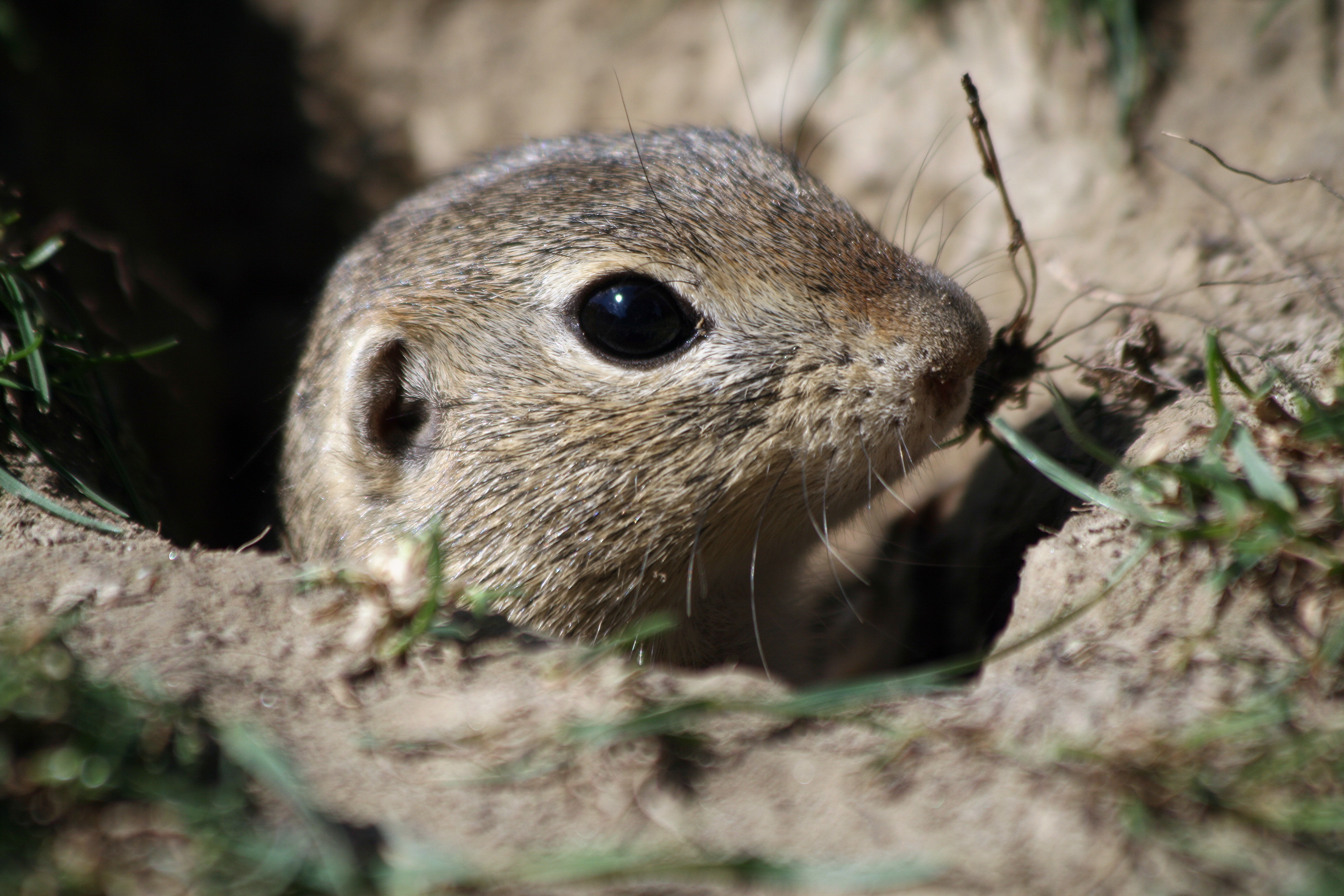 European ground squirrel (Spermophilus citellus) at Danube-Auen National Park (Orth an der Donau, Austria). This file shows the National Park Donau-Auen in Austria.